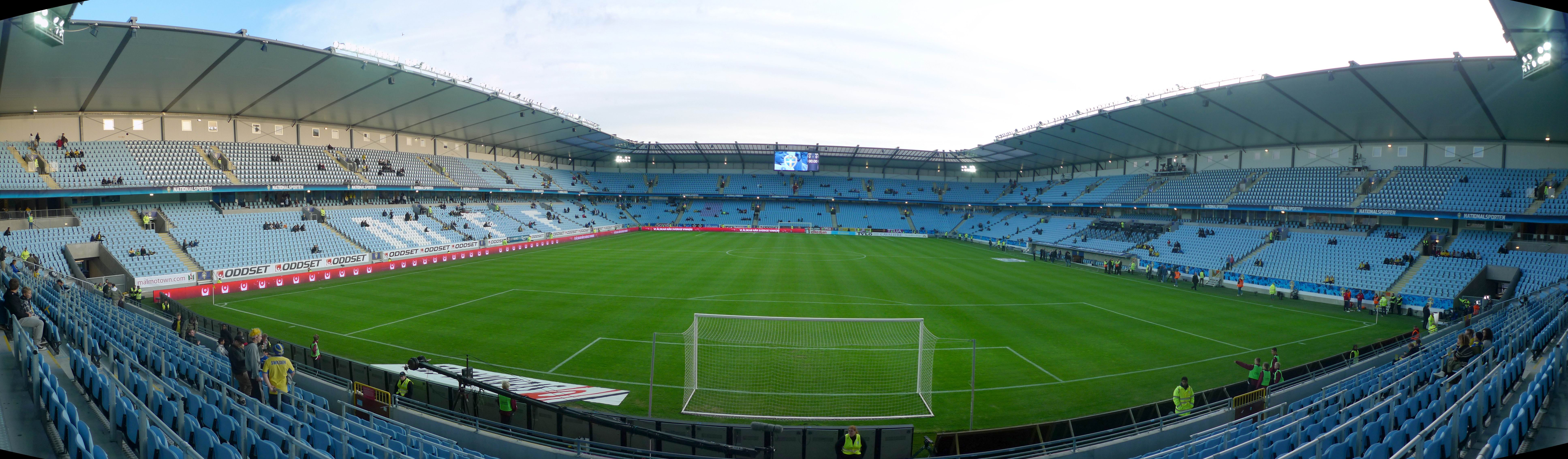 Panorama of Swedbank Stadion (view from the North Stand)